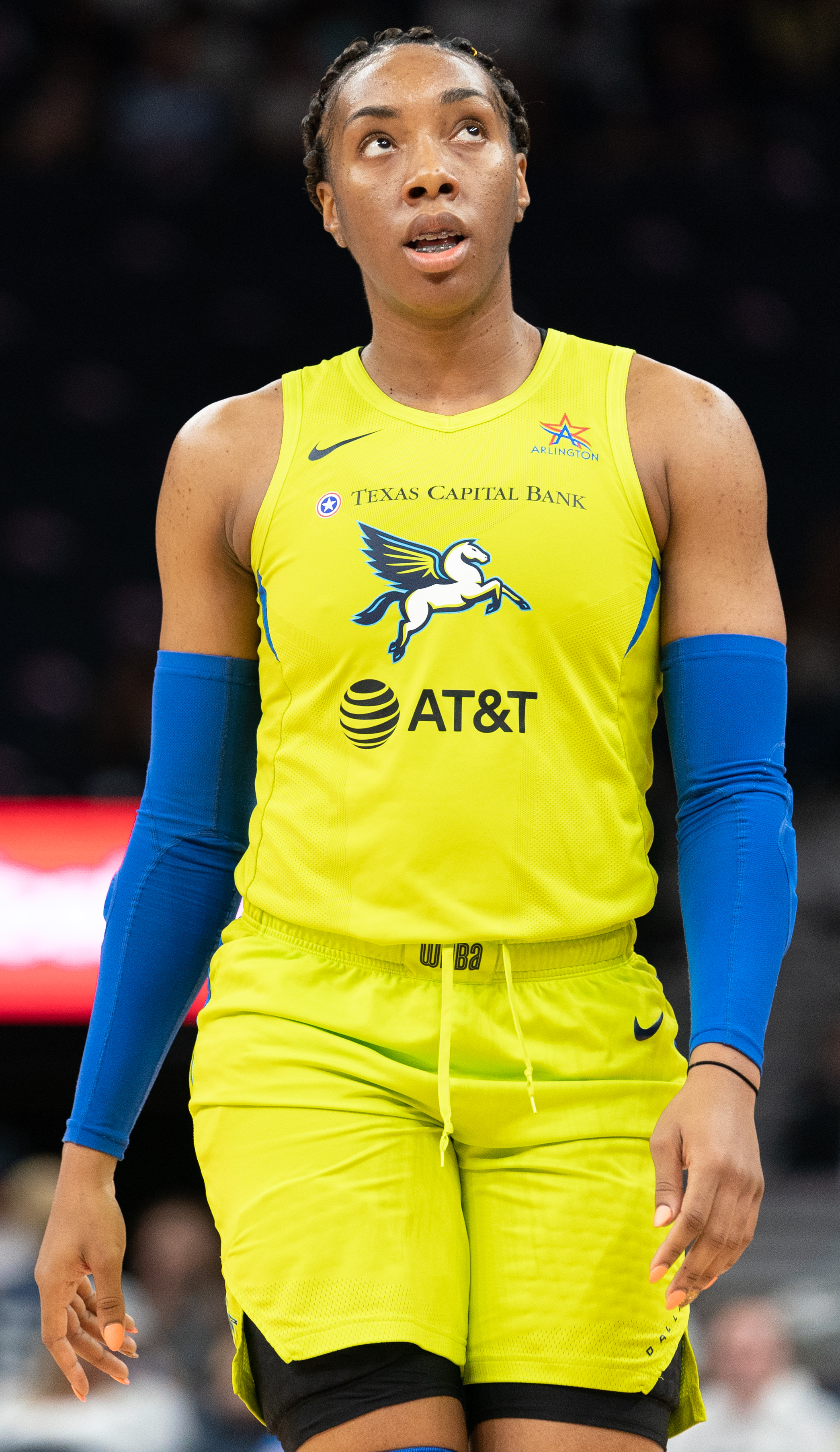 Dallas Wings player Kayla Thornton in a game against the Minnesota Lynx